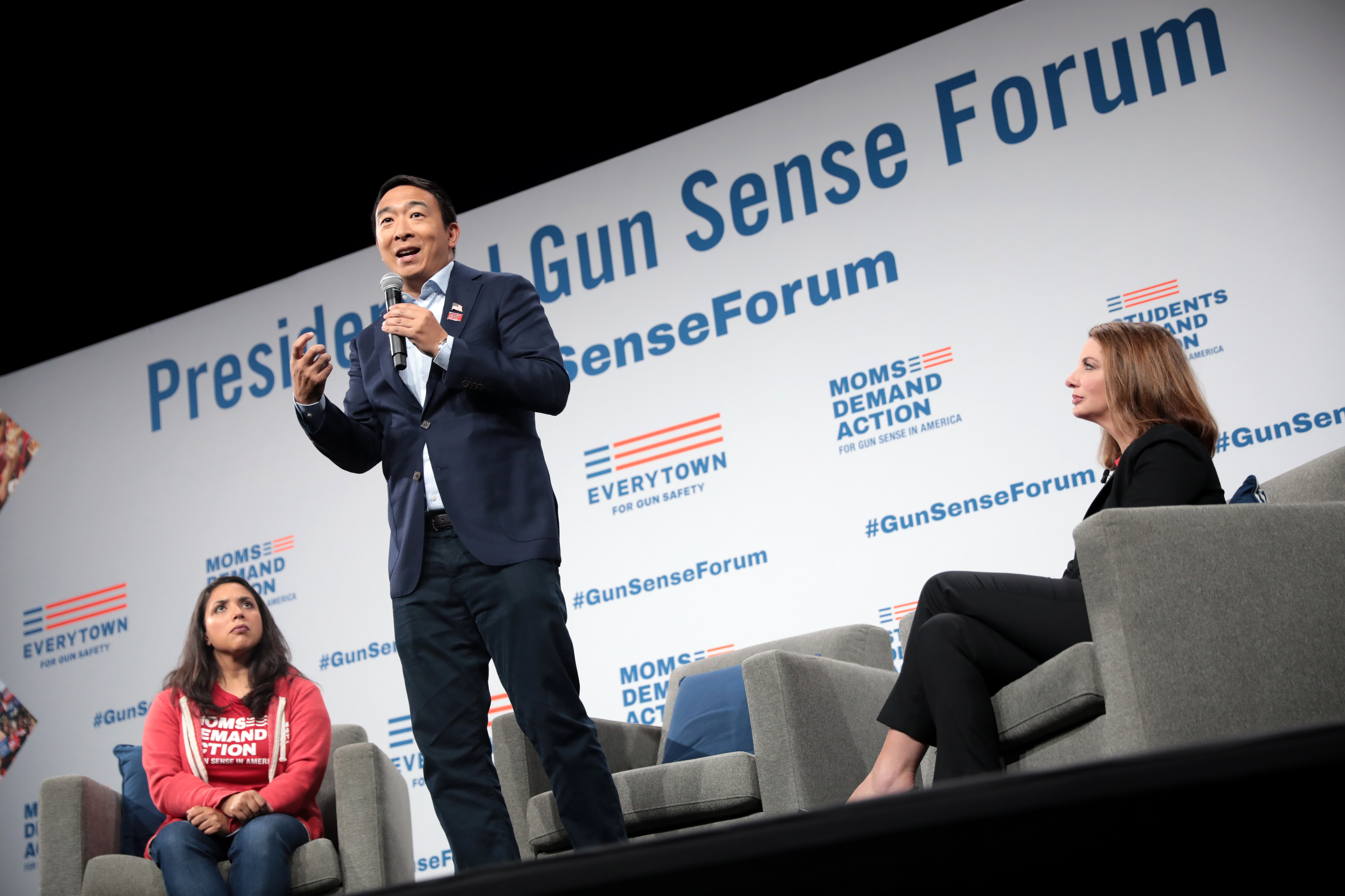 Andrew Yang speaking with attendees at the Presidential Gun Sense Forum hosted by Everytown for Gun Safety and Moms Demand Action at the Iowa Events Center in Des Moines, Iowa.